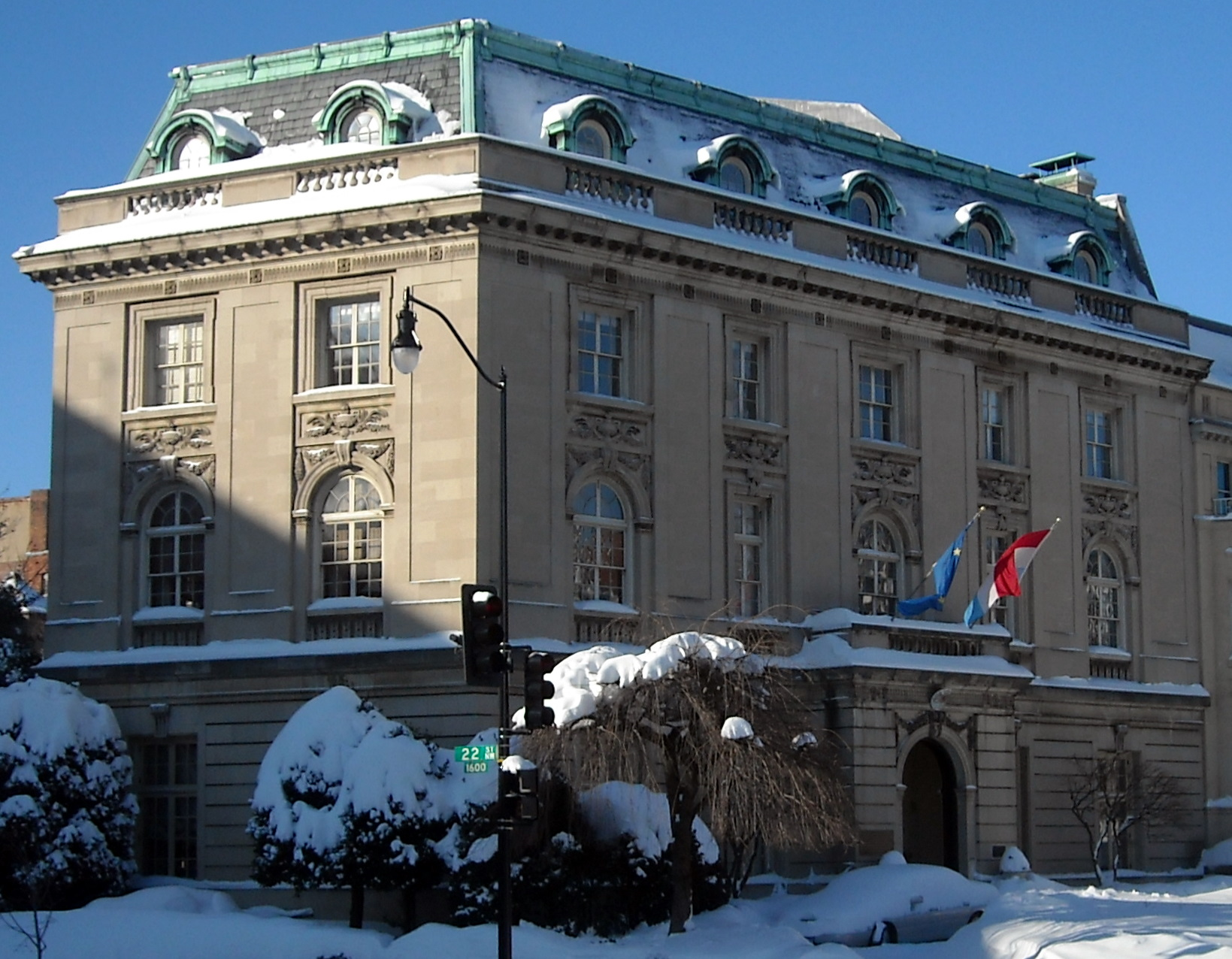 The Embassy of Luxembourg (also known as the Alexander Stewart House), located at 2200 Massachusetts Avenue, N.W., (at the intersection of 22nd Street, Florida Avenue, Massachusetts Avenue, and Q Street, N.W. on Embassy Row) in the Sheridan-Kalorama neighborhood of Washington, D.C., following the Second North American blizzard of 2010.